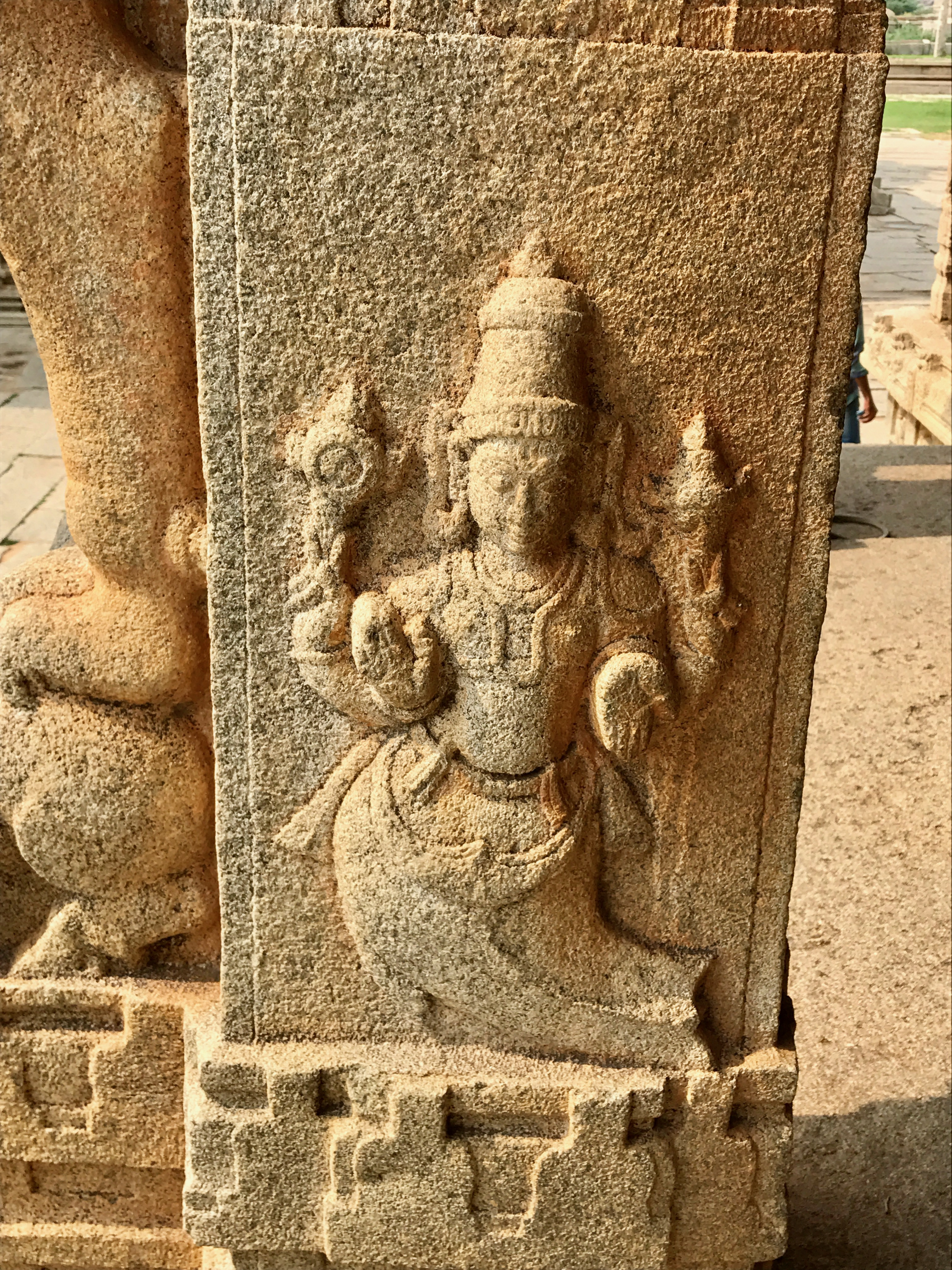 Vitthala temple complex is one of many quarters of the Vijayanagara Empire's old capital of Hampi. It consists of a shrine complex with an entrance gopurum, a major market with broad road and various water tanks and shrines along the way. This was a major Vaishnavism temple, with stone chariot shaped Garuda (Vishnu's vahana) shrine facing the main temple mandapa and grabha ghriya. The mandapa and the temple are all squares, wherein the main mandapa forms a star with overlaid squares. In all four directions there are minor shrines, with pillared halls. The main and smaller shrines include Vaishnavism, Shaivism and Shaktism images. Mini reliefs show legends from Hindu texts such as the Ramayana, the Mahabharata and the Puranas. Some reliefs show Kama scenes, others Artha and daily life of people doing yoga, dance, playing music, playing with babies, making meals, etc. Some panels are devoted to Alvar saints and to the Hindu philosopher Ramanuja. A trilingual stone inscription dated 1516 is in Kannada, Tamil and Telugu. One of the minor shrines features 100 pillars. The Vitthala temple complex, acccording to George Michell, shows evidence of systematic attempts at its destruction using fire and animal powered smashing. Hampi ruins and monuments date to pre-17th century period of South Indian history, particularly those related to the Hindu Vijayanagara Empire era (14th-16th centuries). The site consists of numerous ruins and temples over a large area, the most visited and studied are those located near the Tungabhadra river. The town derives its name from the Pampa Devi Hindu mythology in Sanskrit, with Pampa morphing into Hampa in Kannada, then Hampi. The city served as capital of the Vijayanagara rulers, was pillaged, ruined and abandoned after Muslim armies of a Sultanate coalition attacked and defeated it. In the modern era, it serves as an archaeological site and is a UNESCO world heritage site.